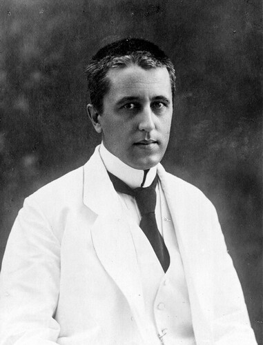 Claudius Henricus de Goeje, 1910s